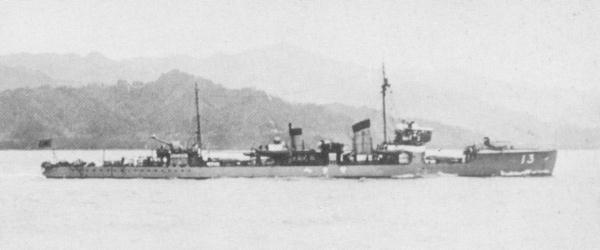 Japanese Destroyer "Sanae" (Wakatake-class).